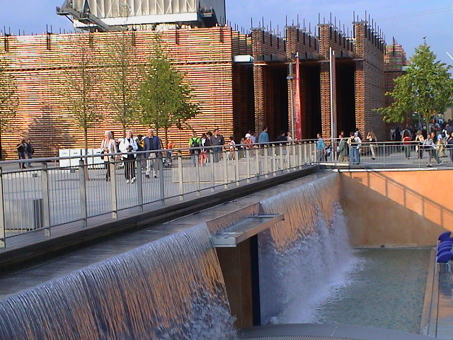 Waterfall on Expo 2000 in Hannover, Germany. In the background the Swiss pavillon